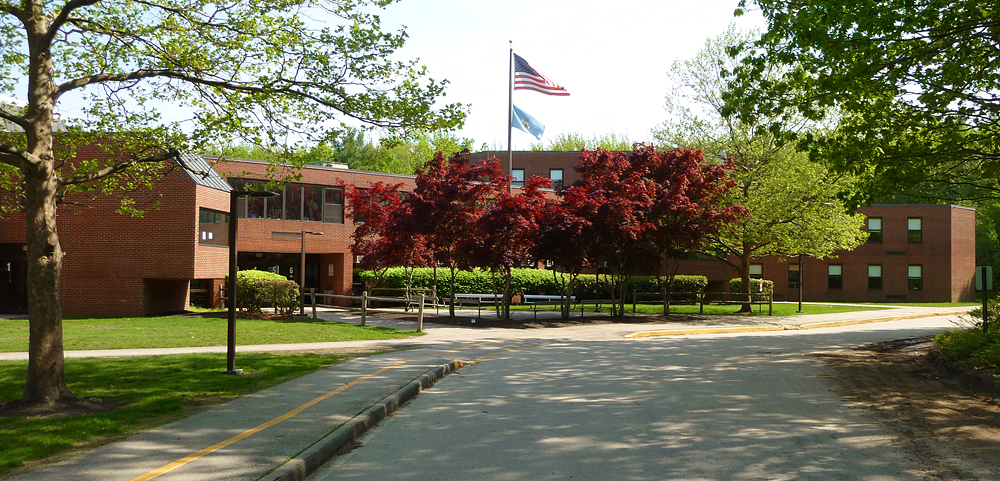 Wells High School in Wells, Maine. This is the fourth Wells High School building, constructed in 1977, and seen here in 2011. The school is located at 200 Sanford Road (ME-109).